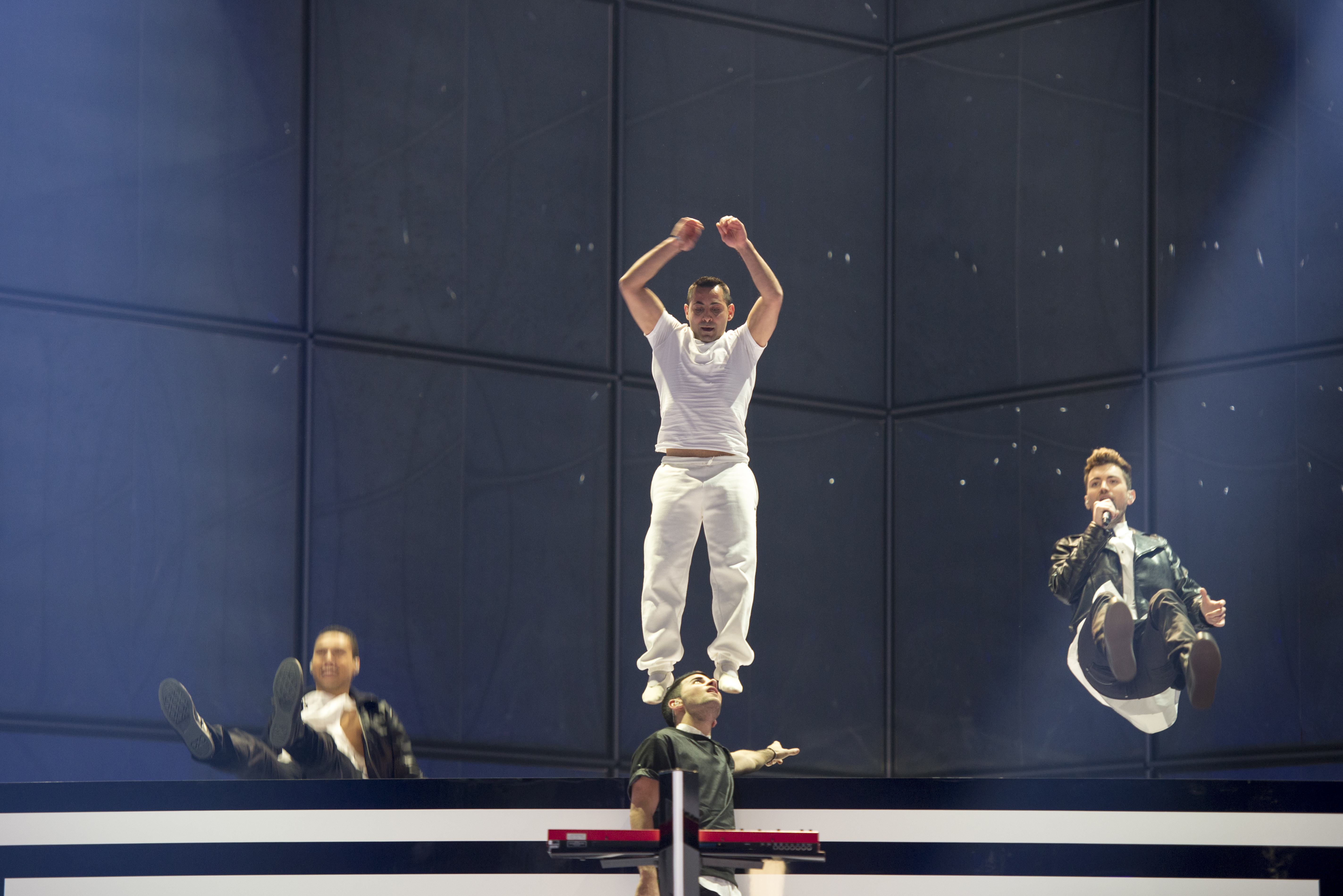 Freaky Fortune and Shane Schuller representing Greece with the song "Rise Up" during the first dress rehearsal of the second semi final of the Eurovision Song Contest 2014 Copenhagen. (Help translate this text)